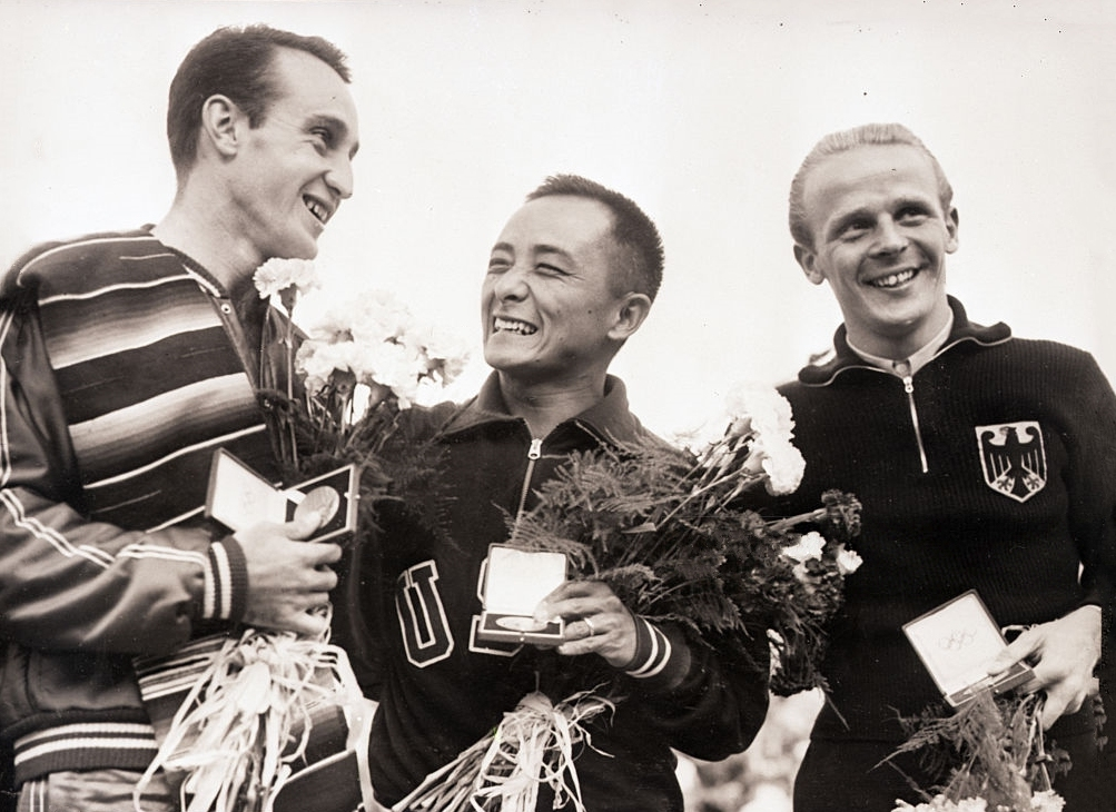 1952 Press Photo PJ Capilla, S Lee & G Haase win Olympic diving event